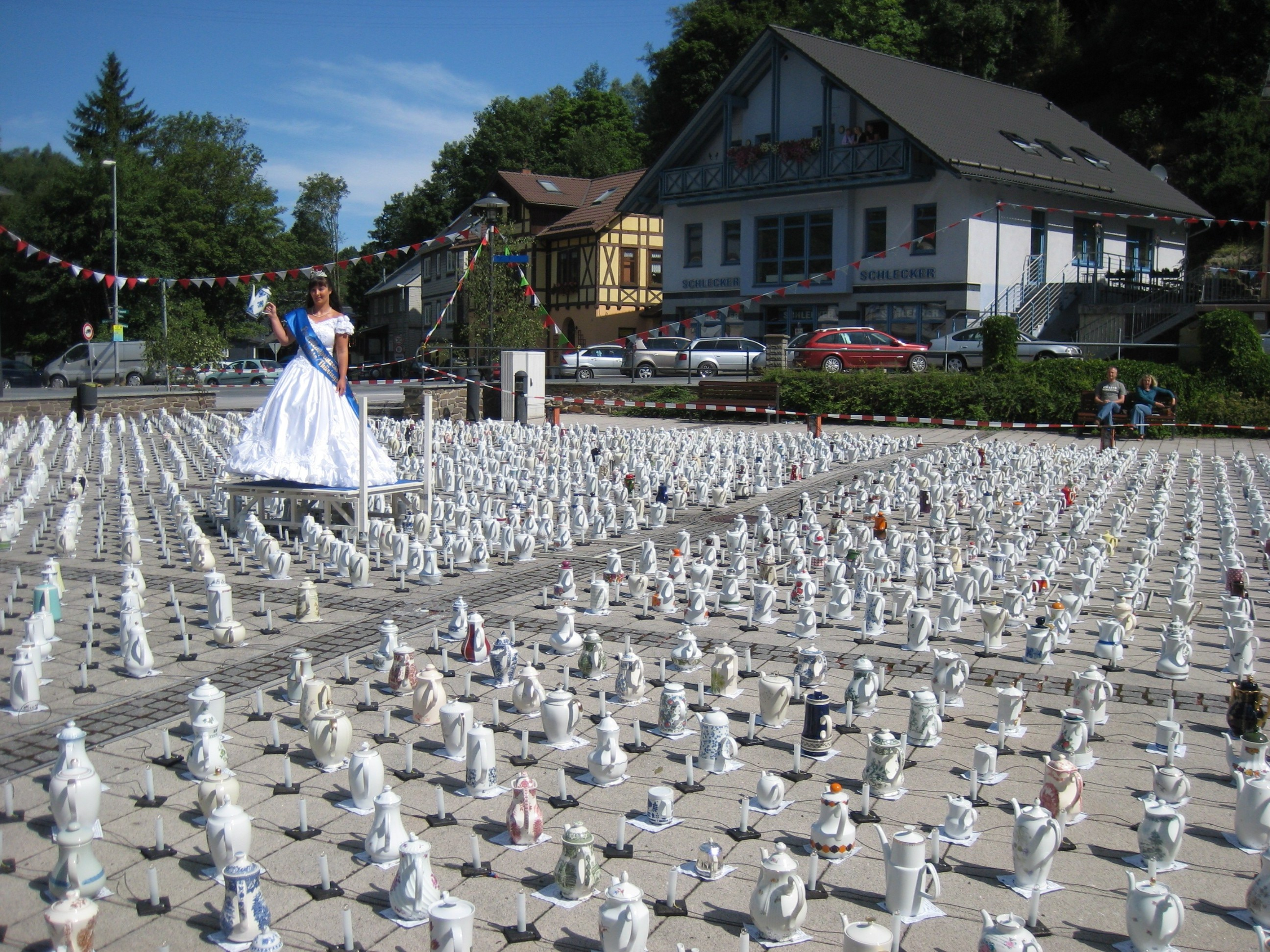 Lichte (Wallendorf), Porcelain princess with 3,000 coffee- and tee-pots, on the ocation of a porcelain show 2010. Photo on the market-place Wallendorf, Saalfelder Str.